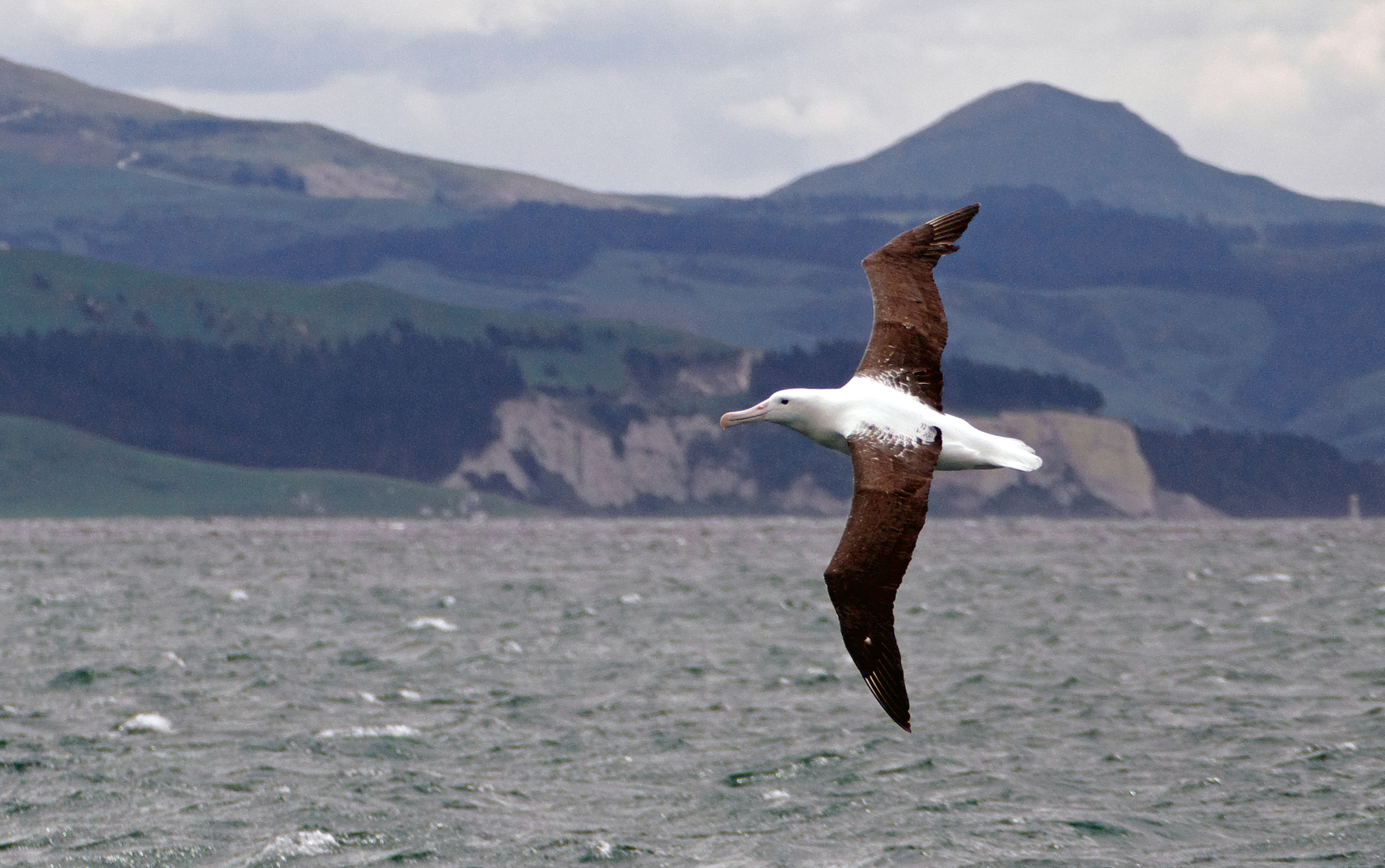 The northern royal albatross is a huge white albatross with black upperwings. It usually mates for life and breeds only in New Zealand. Biennial breeding takes place primarily on The Sisters and The Forty-Fours Islands in the Chatham Islands. There is also a tiny colony at Taiaroa Head near Dunedin on the mainland of New Zealand, which is a major tourist attraction.